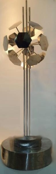 League Cup Ceará 2010